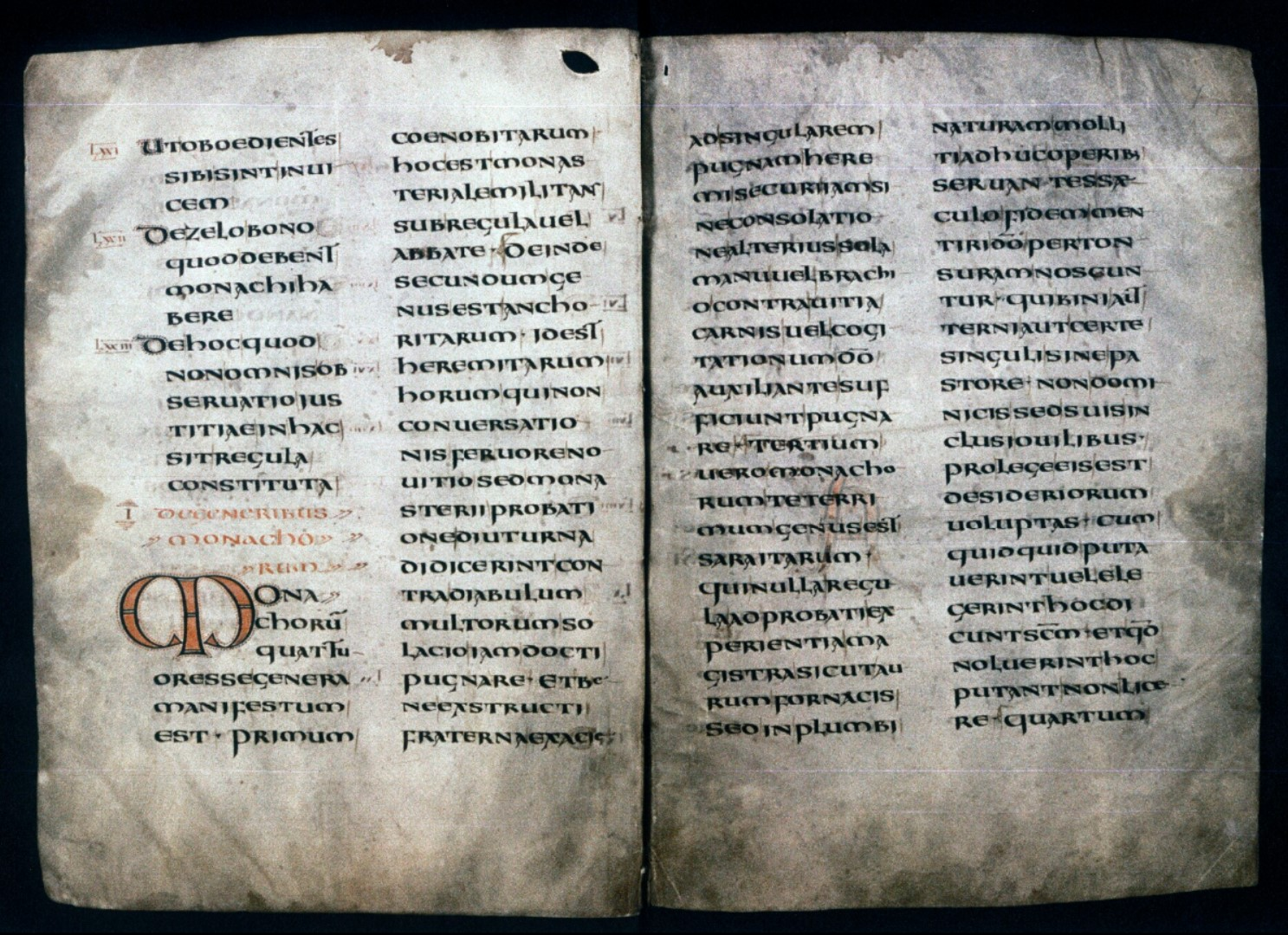 MS. Hatton 48 fol. 6v-7r of the Bodleian library in Oxford. This manuscript is a copy of St. Benedicts rule.